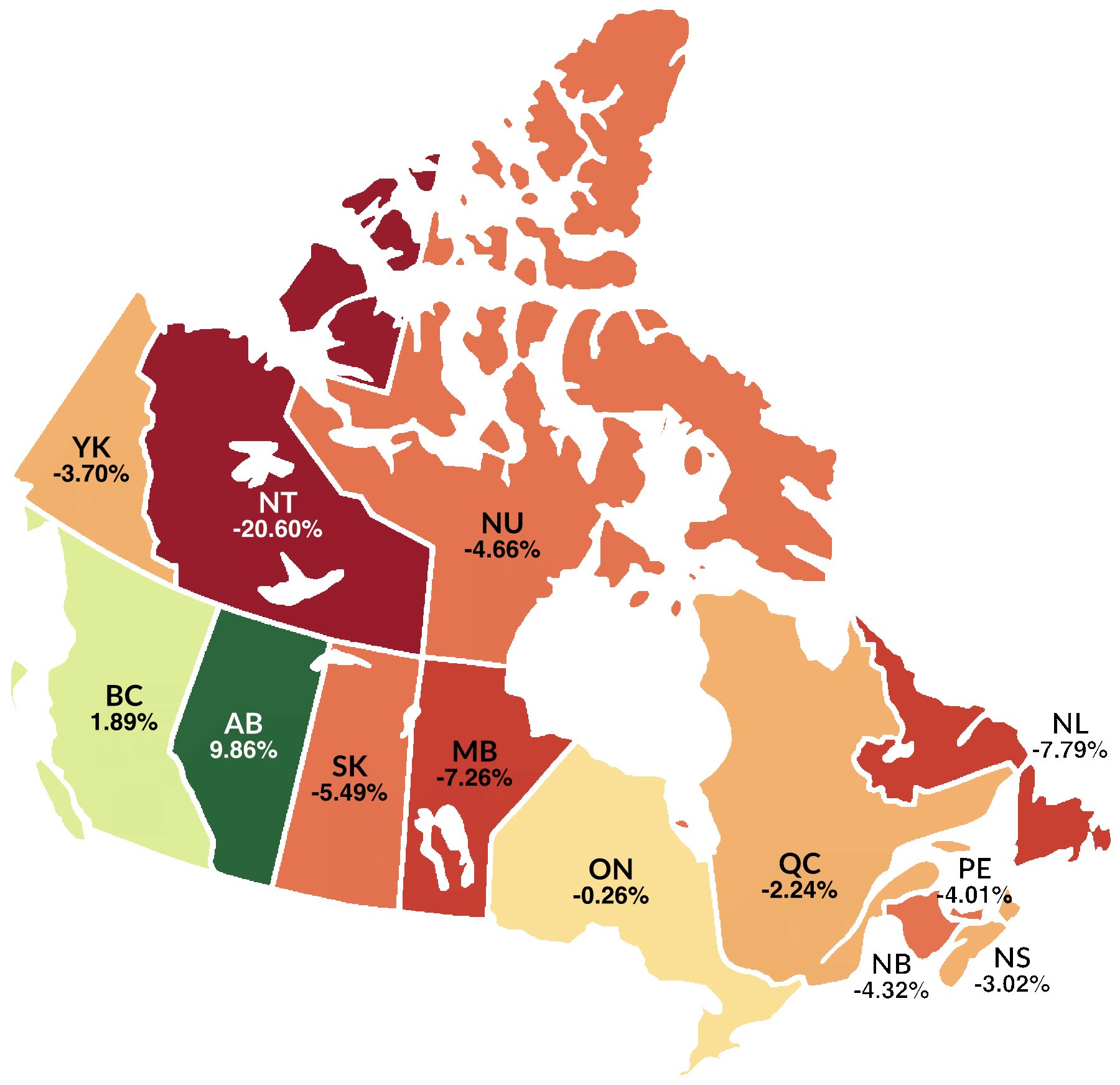 Net cumulative interprovincial migration, 1997 to 2017, as a share of population, 2016 Over 8% loss 6-8% loss 4-6% loss 2-4% loss 0-2% loss 0-2% gain 2-4% gain 4-6% gain 6-8% gain Over 8% gain